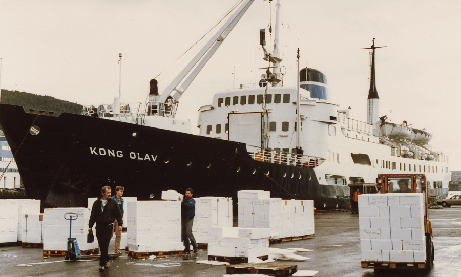 "Kong Olav" is loading cargo in Bergen in 1986.